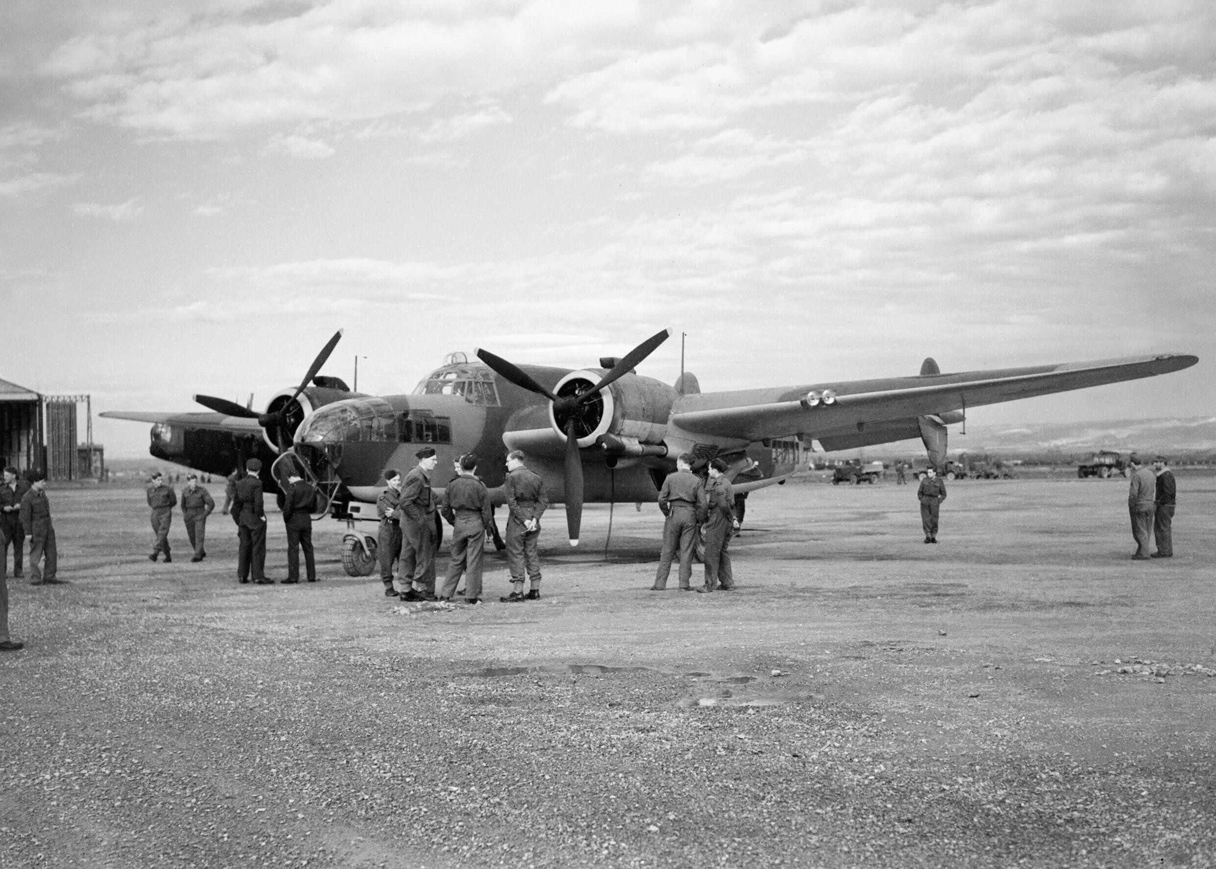 Royal Air Force Ferry Command, 1941-1943. Armstrong Whitworth Albemarle ST Mark I Series 2, P1564, of 'C' Flight, No. 511 Squadron RAF based at Lyneham, Wiltshire, attracts attention at Blida, Algeria, after completing the first forces air mail flight from the United Kingdom to North Africa.